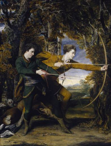 Features MP Colonel John Dyke Acland (1746 -1778) and diplomat Dudley Alexander Sydney Cosby (1732-1774). In September 2005, the Tate Gallery acquired the painting for over UK£2.5 million (US$4.4 million). [1]